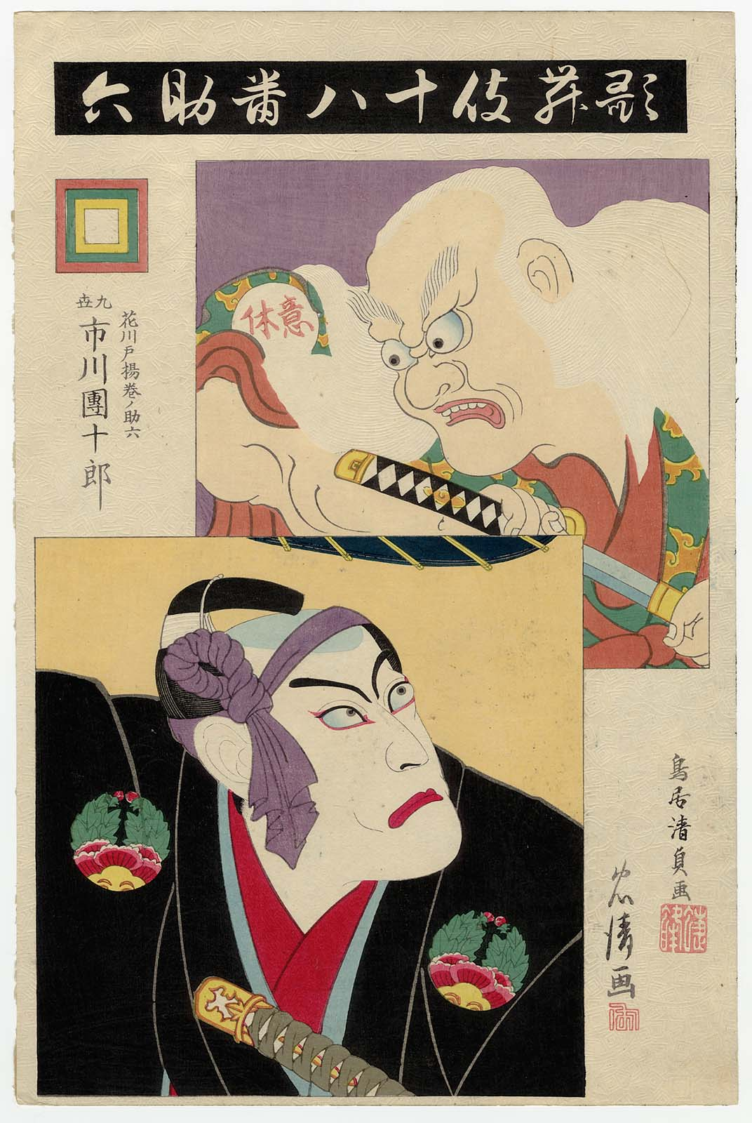 Part of the series The Eighteen Great Kabuki Plays